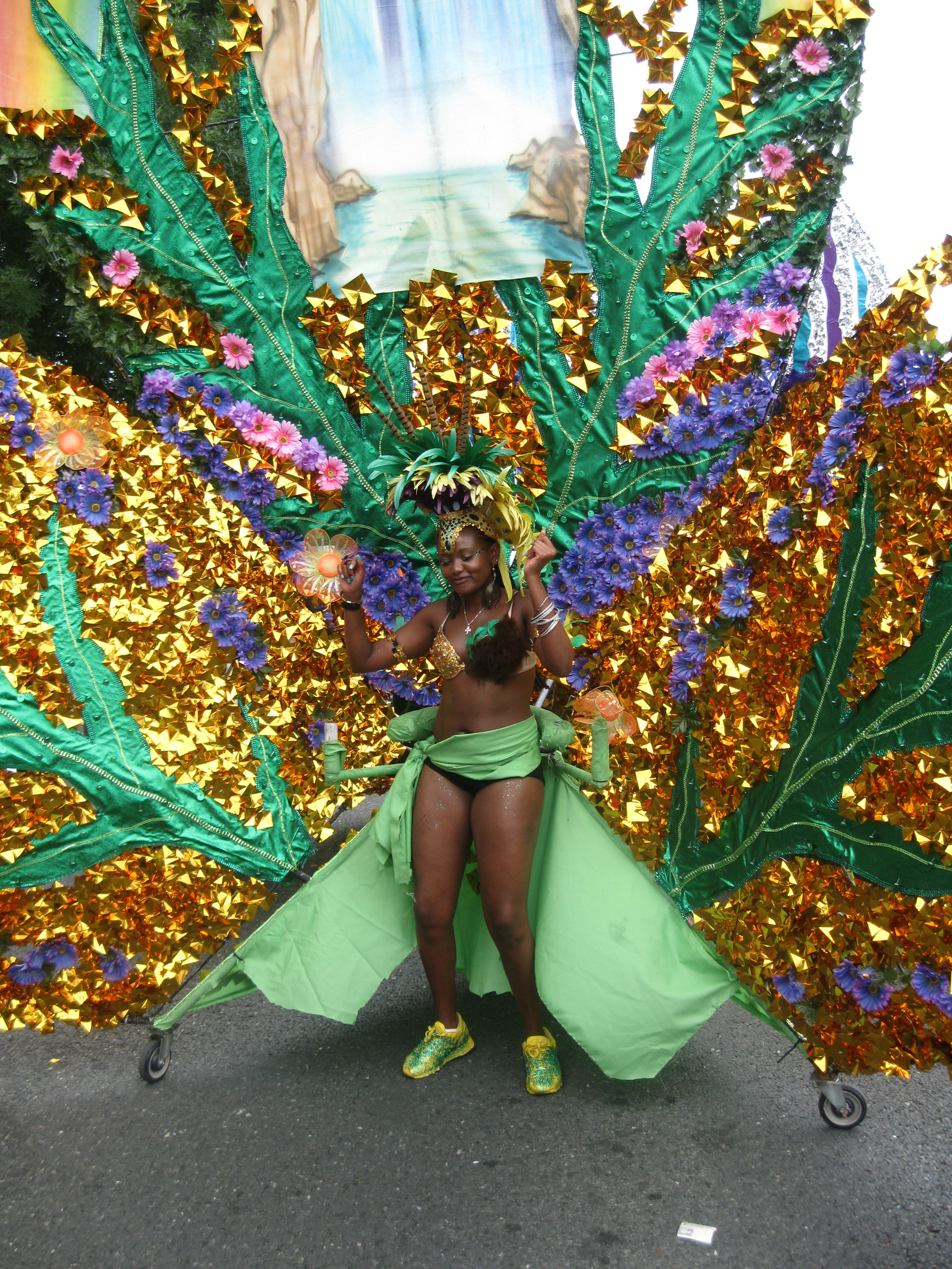 This is the first costume made by Centennial College School of Hospitality, Tourism and Culture " Tropical Amazon "